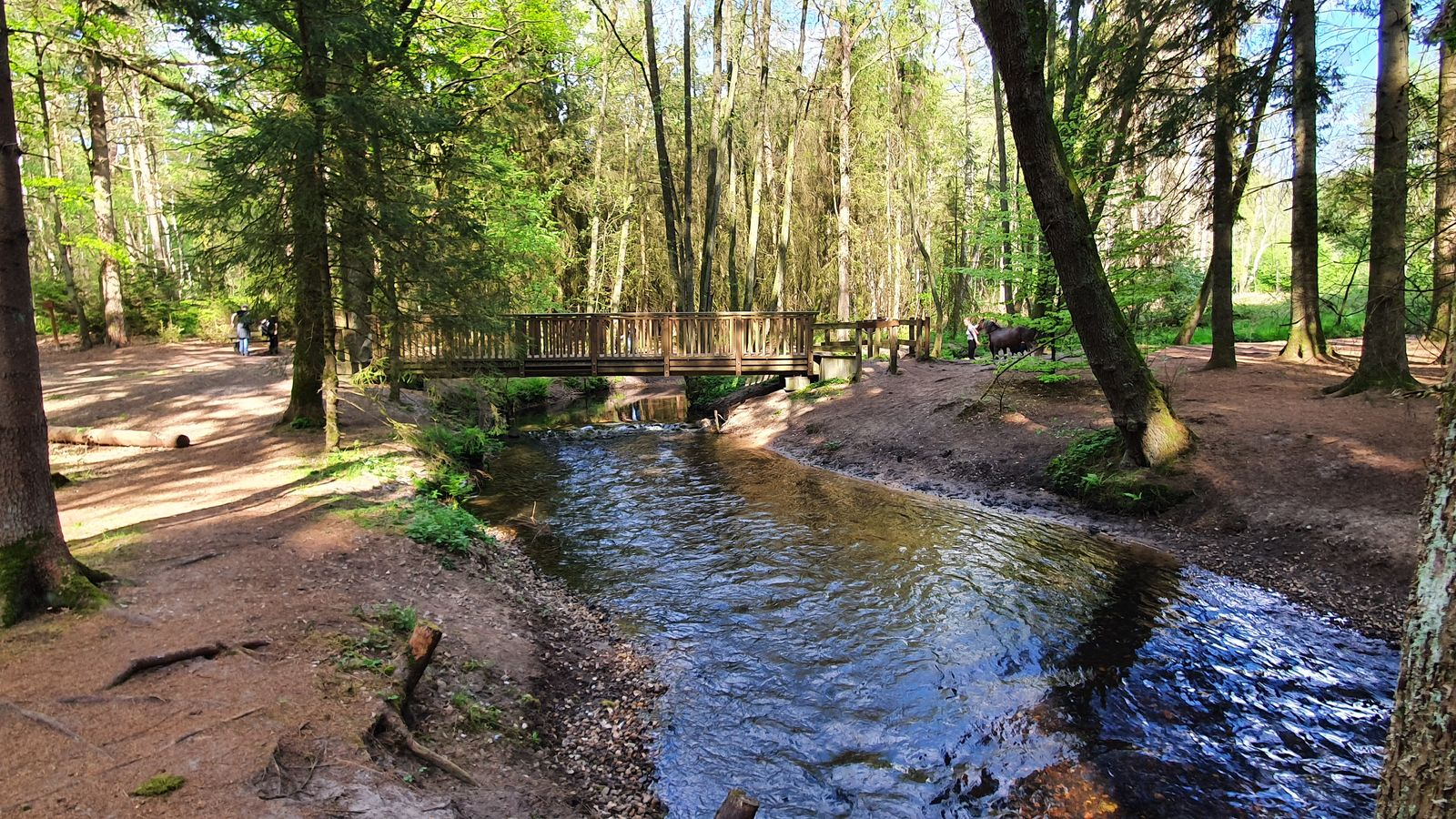 Butterbarg Brügg over the Este in Bötersheim